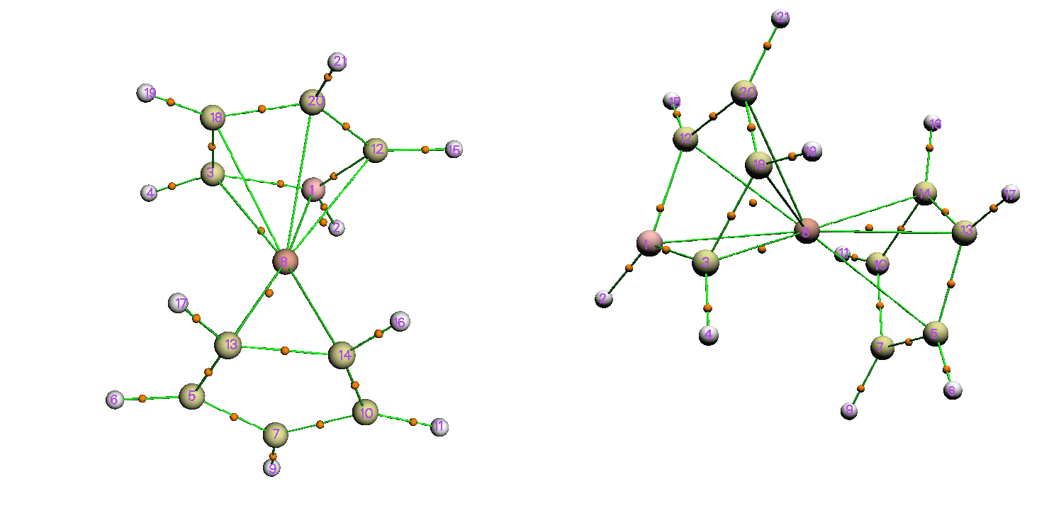 aim analysis